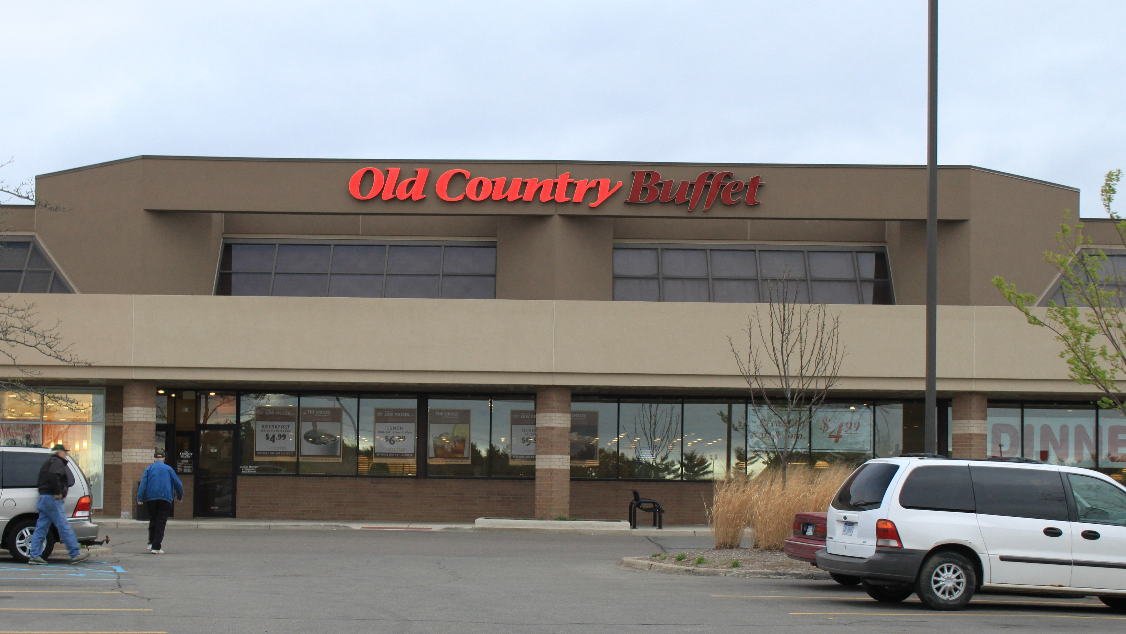 Old Country Buffet, 914 W. Eisenhower Pkwy, Ann Arbor, MI 48103 Now Closed Due to Bankruptcy